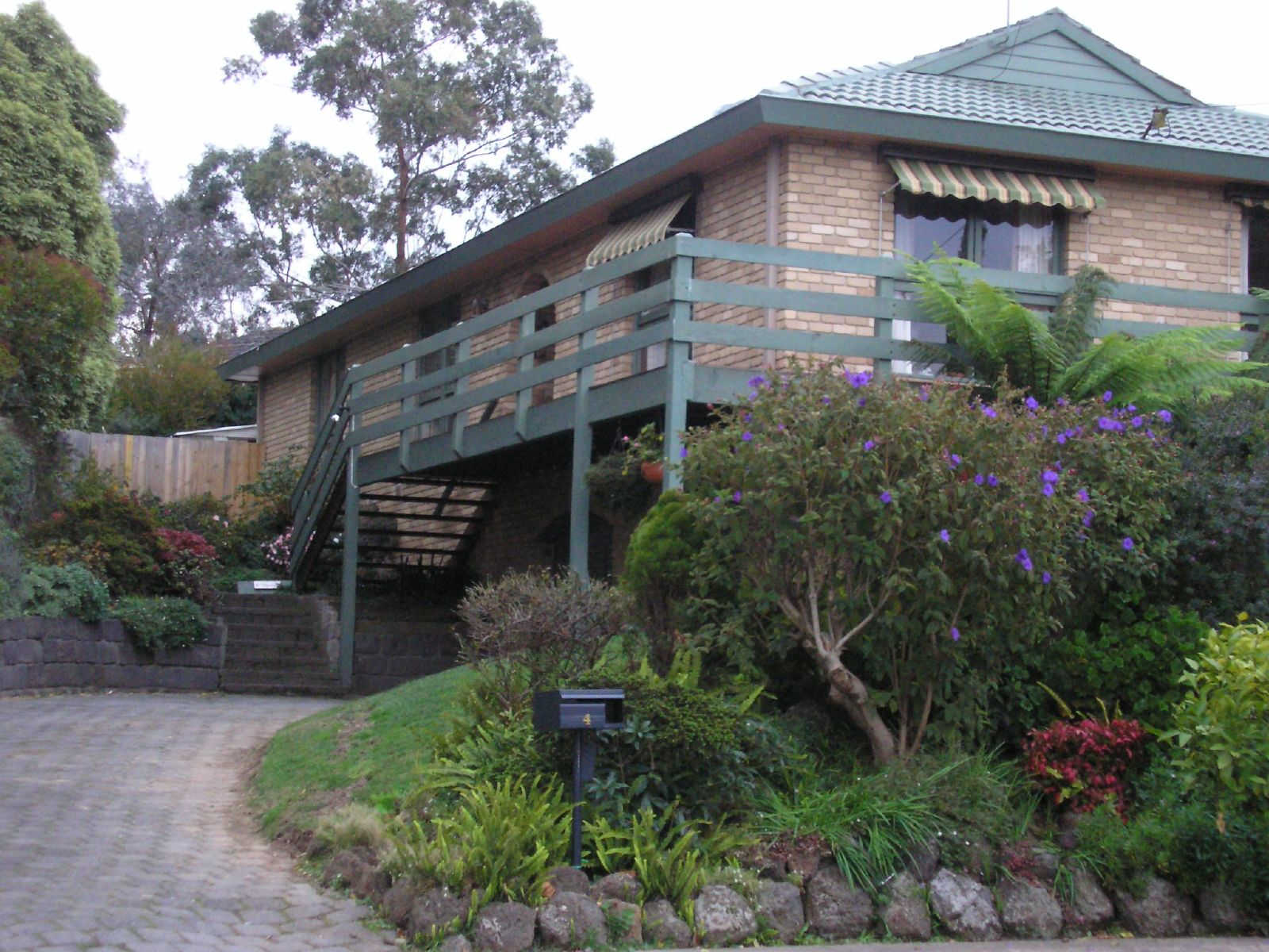 The house on Pin Oak Court, Vermont South where Harold lives in the Australia Soap Opera Neighbours